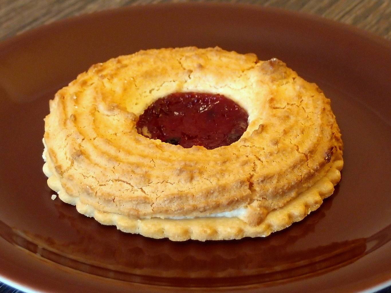 Ochsenauge (ox's eye), a pastry made from a marzipan based mixture piped onto a shortbread base, and filled with jam.